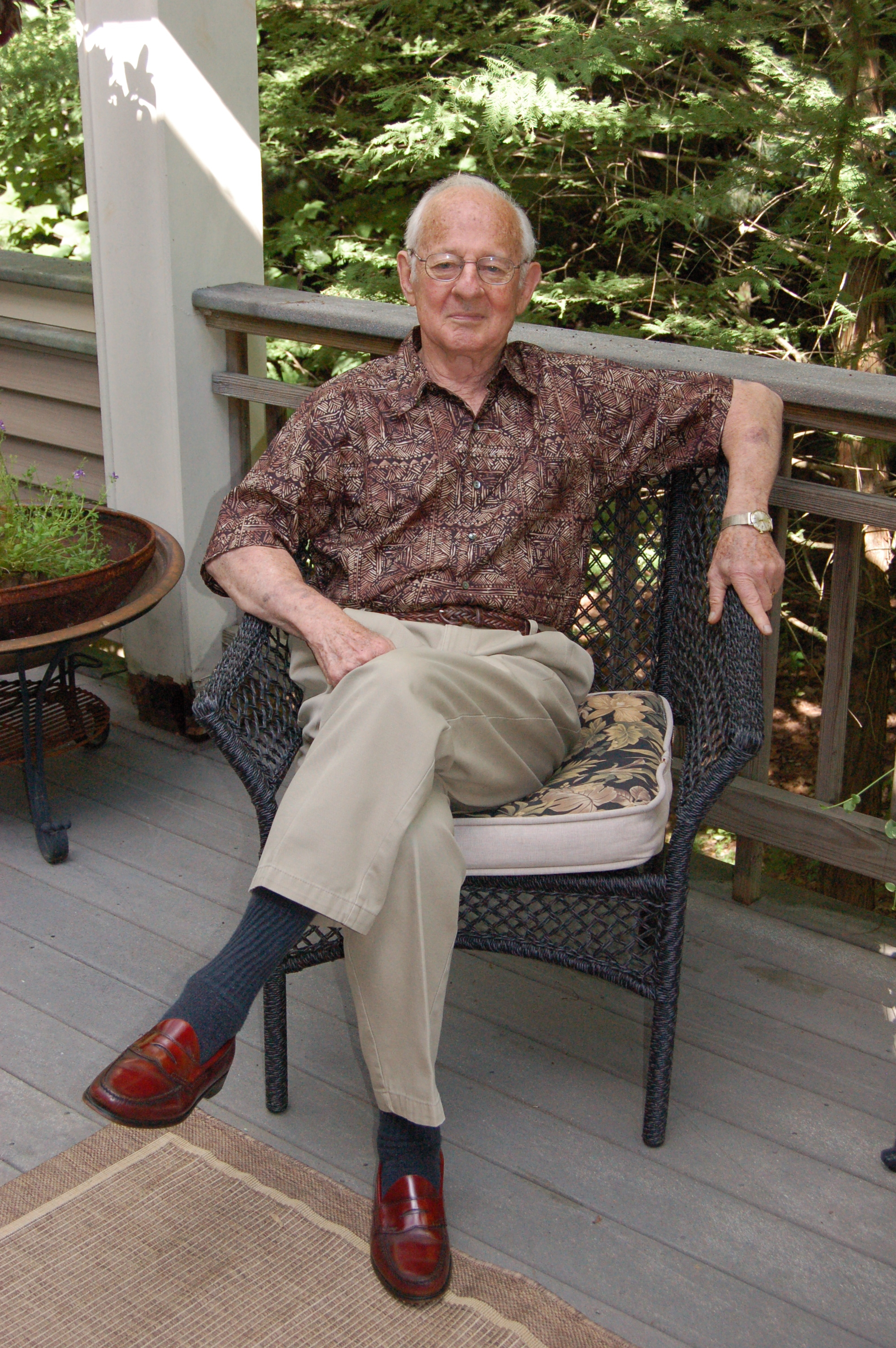 William Ennis Thomson, taken in Bloomington in 2008